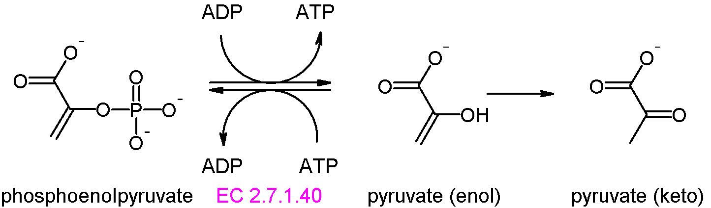 Glycolysis, PEP-Pyr